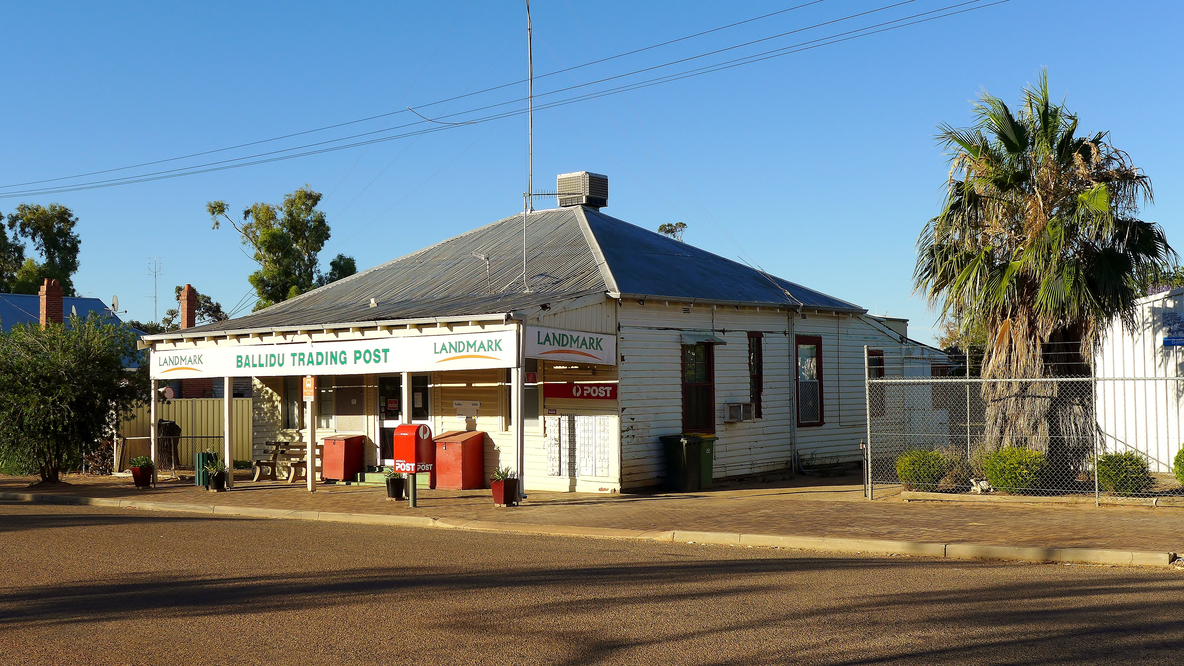 View of Ballidu Trading Post, Federation Street, Ballidu, Western Australia.